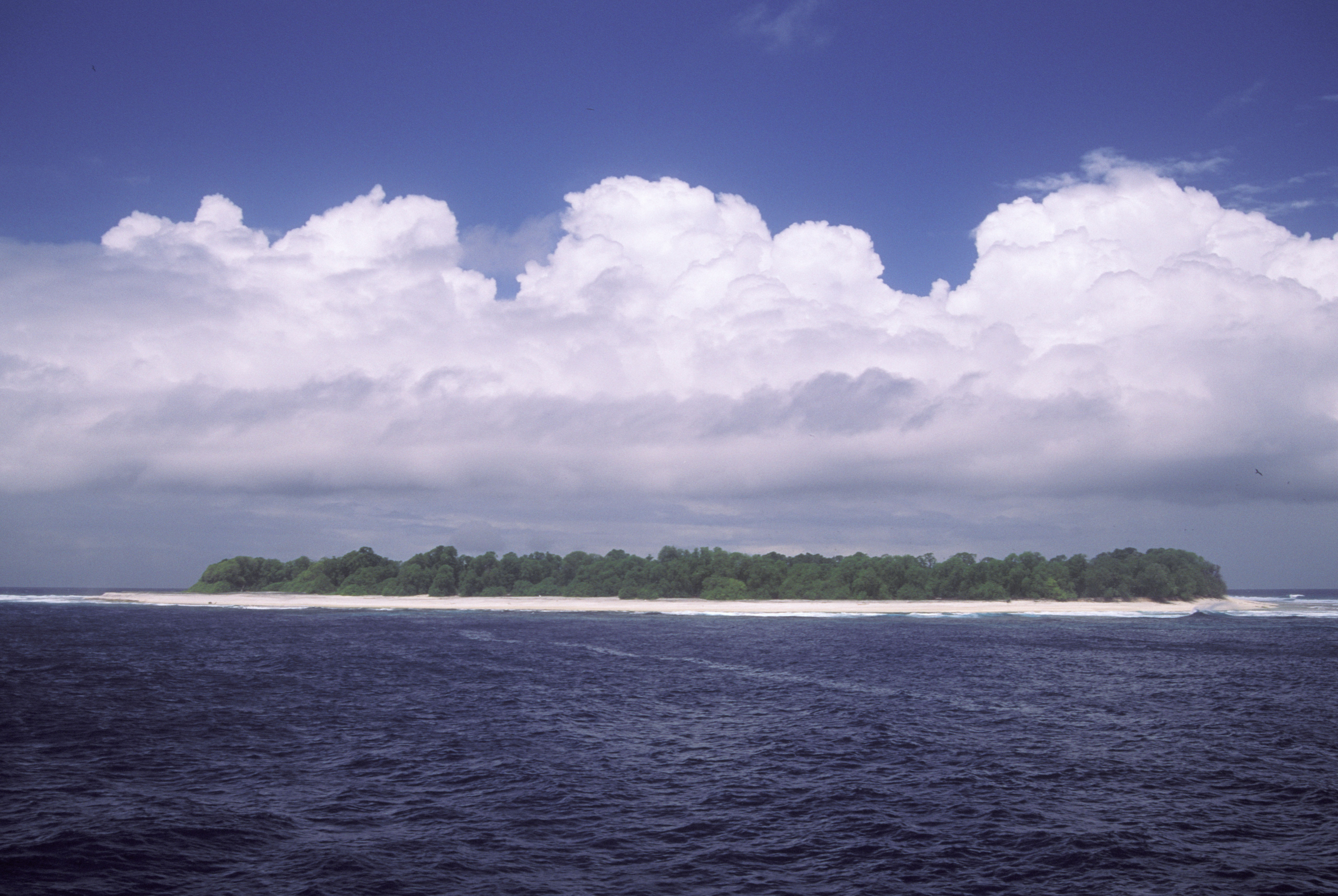 A profile view of Vostok Island, seen from an approaching boat, shows the low profile typical of these southern Line Islands, Kiribati. Original field note: One of the most remote islands in the world, uninhabited.